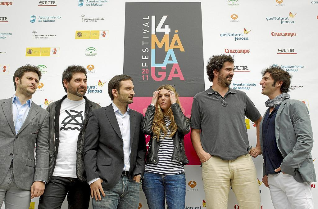 Marcos Cabotá en el Festival de Málaga con el equipo de la película de"Amigos"